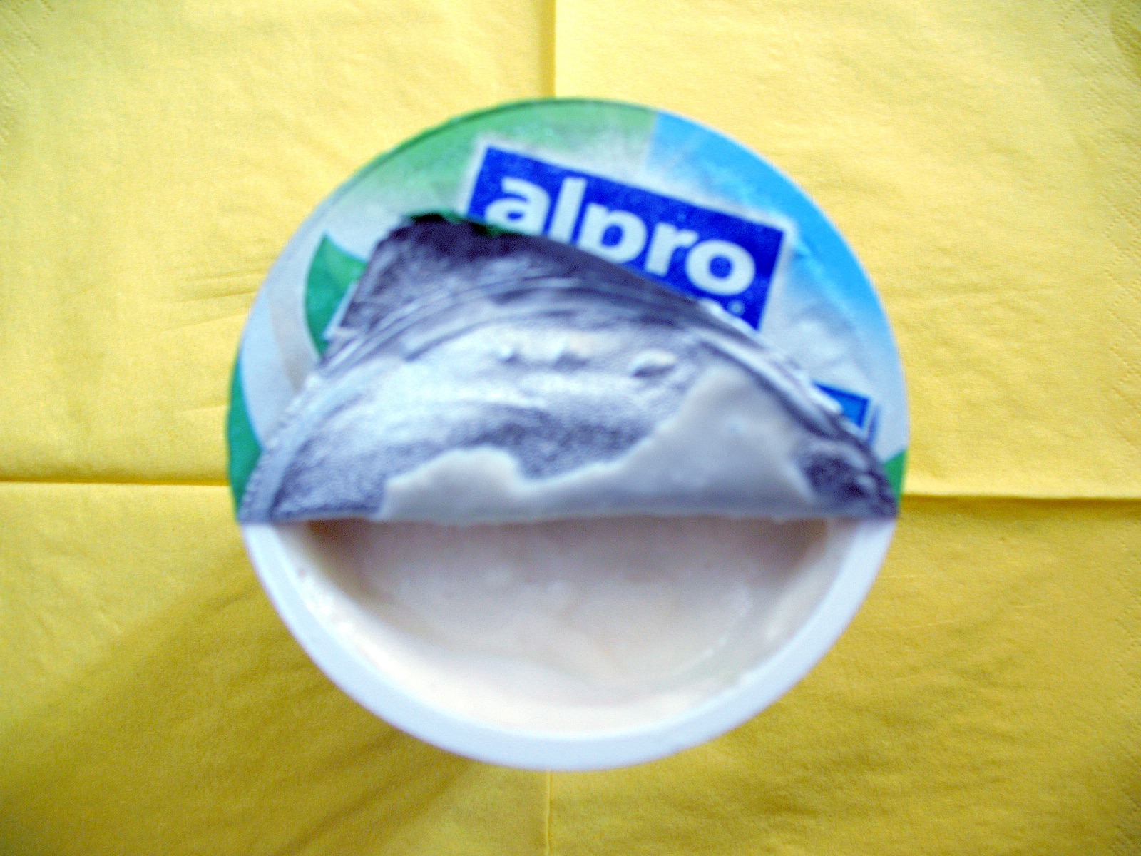 open package of alpro soy yogurt